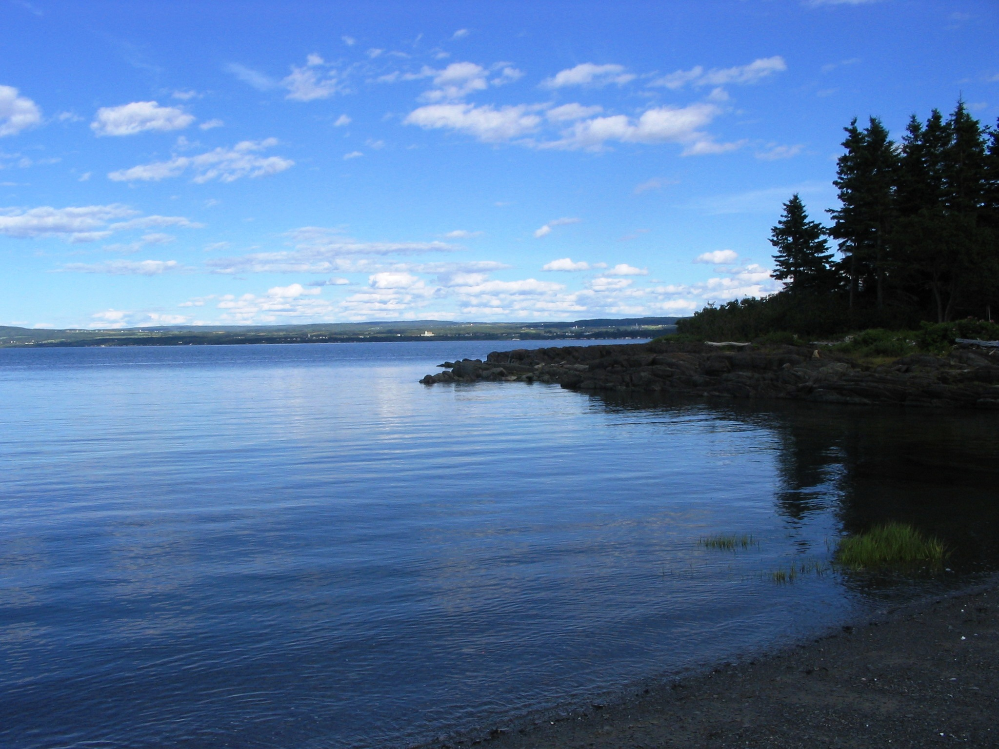 Picture taken at the Île aux Basques from the Anse d'en Bas.